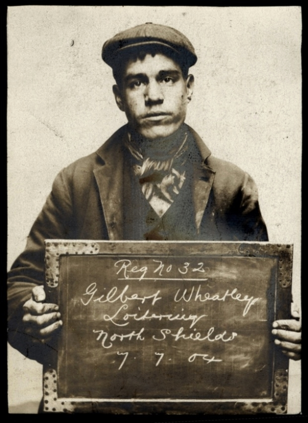 Name: Gilbert Wheatley Arrested for: Loitering Arrested at: North Shields Police Station Arrested on: 7 July 1904 Tyne and Wear Archives ref: DX1388-1-51-Gilbert Wheatley The Shields Daily Gazette for 7 July 1904 reports: “LOITERING. Today at North Shields, Gilbert Wheatley (19), Byker and James Garvey (18), Gateshead, were charged with loitering in Borough Road and New Quay, for the supposed purpose of committing a felony, at 12.35am on the 6th inst. Chief Constable Huish proved convictions for larceny against both the prisoners and they were each committed for 14 days.” Gilbert Wheatley doesn’t seem to have mended his ways. Could he be the soldier referred to in The Yorkshire Post and Leeds Intelligencer report of 8 April 1916? “The Easter Quarter Sessions for the Borough of Richmond were held yesterday, before Mr Fekix Palmer, Recorder … Gilbert Wheatley, private in the Northumberland Fusiliers, pleaded guilty to stealing a purse, containing 4s 4d, from Private Yates, on the 12th of February and was sentenced to 12 months hard labour. Wheatley had a record of some 30 convictions.” These images are a selection from an album of photographs of prisoners brought before the North Shields Police Court between 1902 and 1916 in the collection of Tyne & Wear Archives (TWA ref DX1388/1). This set contains mugshots of boys and girls under the age of 21. This reflects the fact that until 1970 that was the legal age of majority in the UK. (Copyright) We're happy for you to share this digital image within the spirit of The Commons. Please cite 'Tyne & Wear Archives & Museums' when reusing. Certain restrictions on high quality reproductions and commercial use of the original physical version apply though; if you're unsure please .